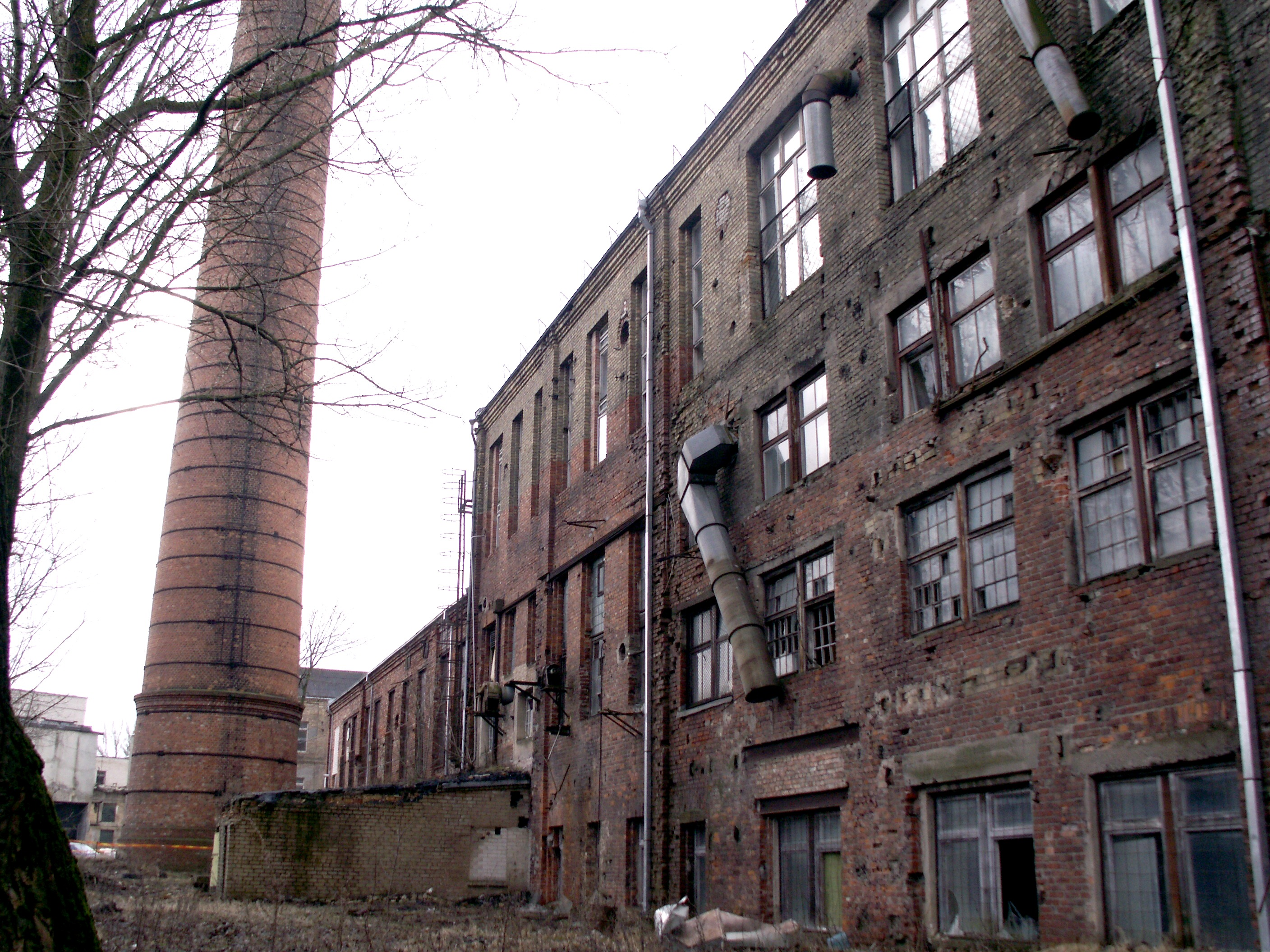 Former Chaimas Frenkelis tannery in Šiauliai